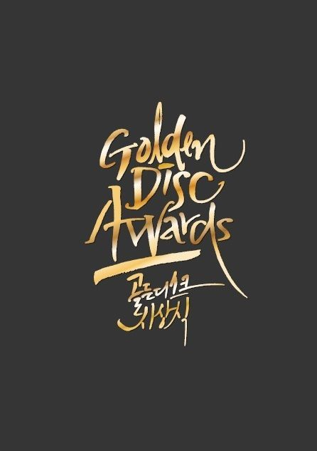 32nd Golden Disc Awards poster.